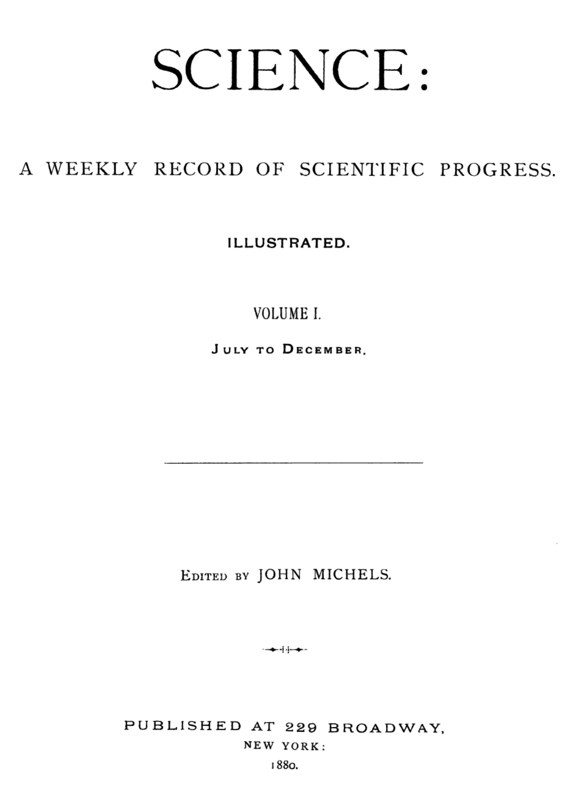 Vol. 1 Science July-December 1880 (old series)